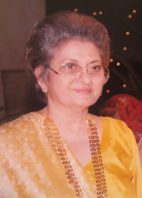 A photo of Smt. Roda Homi Mistry, taken at her 50th wedding anniversary party in Hyderabad, India, on Feb. 29, 1996. (Family photo, Creative Commons Attribution 4.0)